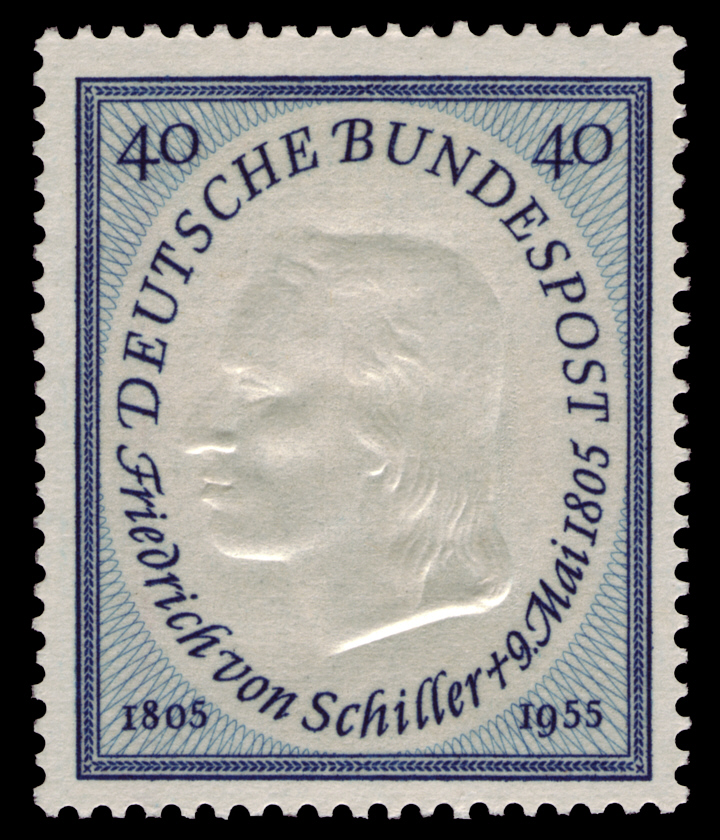 stamp for the 150th day of death of Friedrich Schiller (1759-1805) Graphics by Walter Ausgabepreis: 40 Pfennig First Day of Issue / Erstausgabetag: 9. Mai 1955 Michel-Katalog-Nr: 210